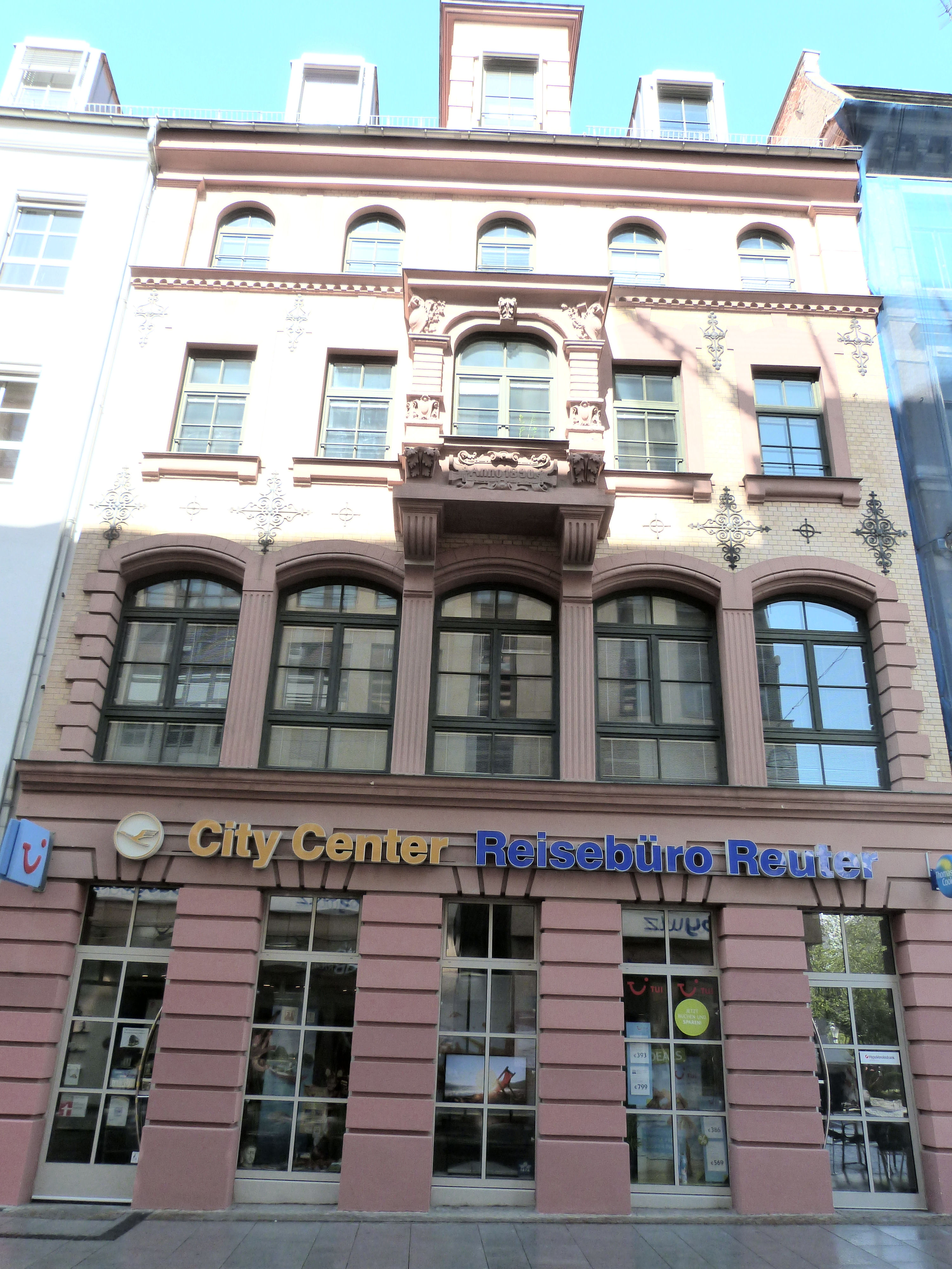 House No. 23, Leipziger Strasse in Halle (Saale)